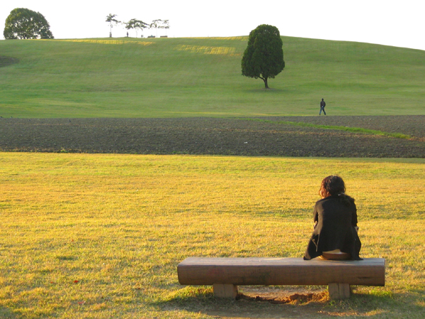 Autumn in the Olympic Park in Seoul, South Korea.